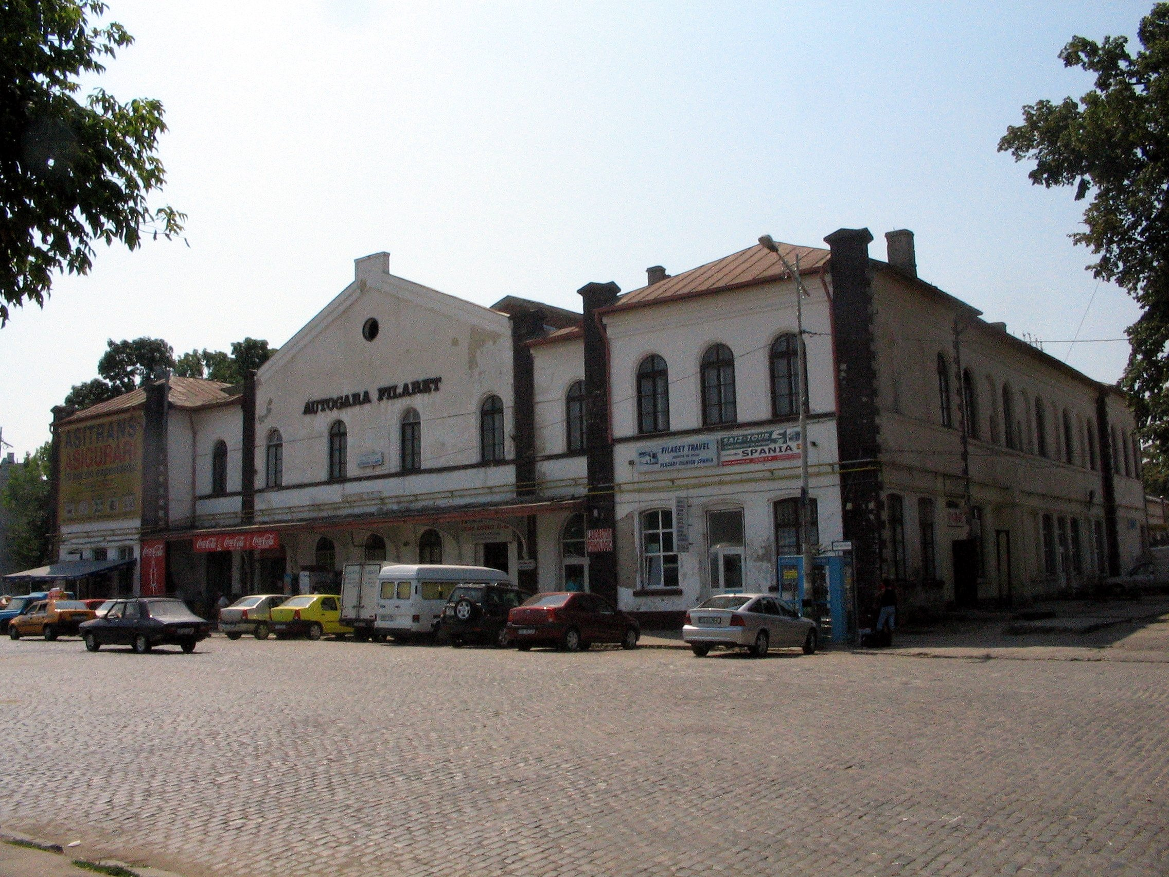 The Filaret Bus station, Bucharest, Romania Although now a bus station, this was the first passenger train station in Romania